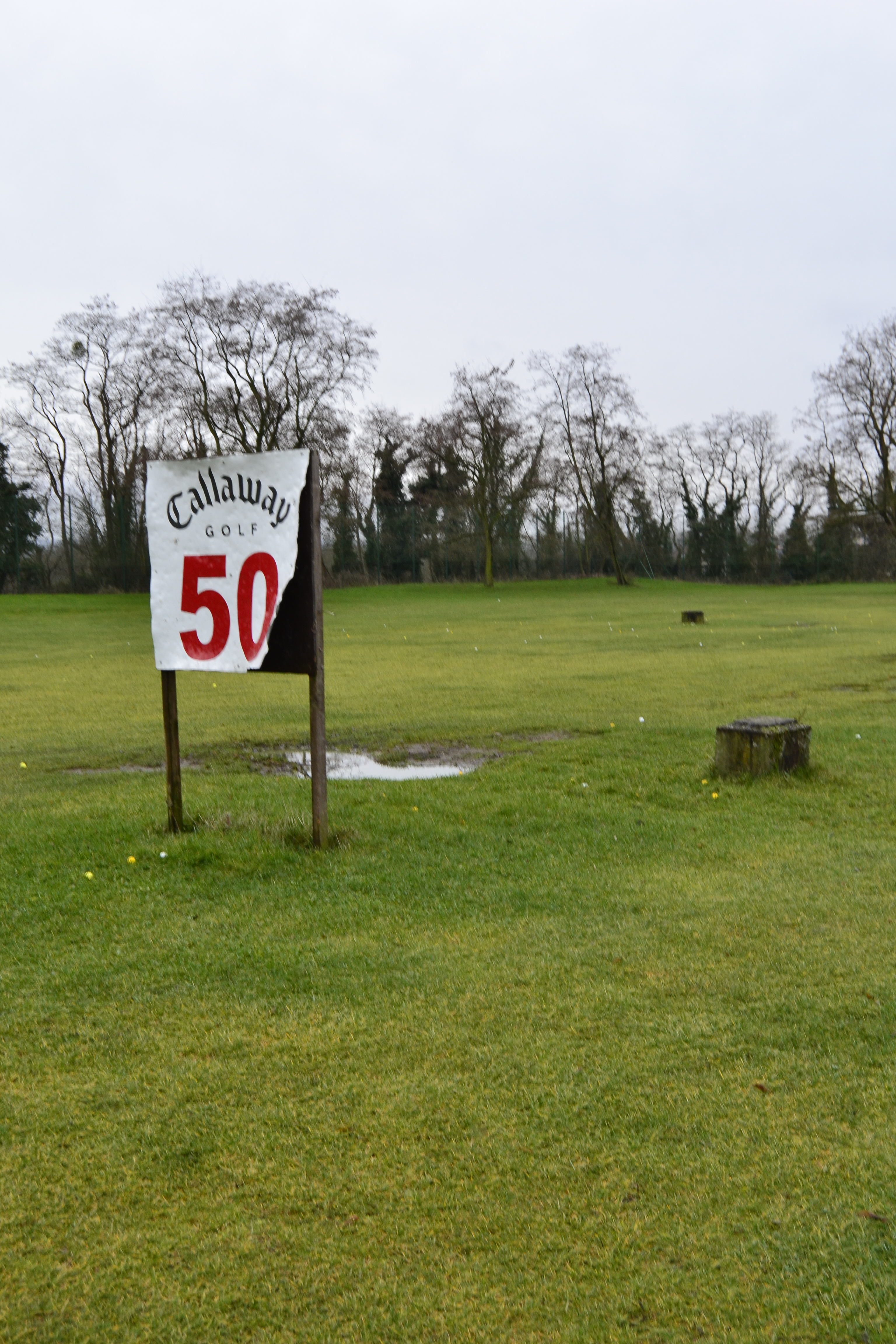 Ancient pit n° 2 of the Grande Bacnure coal mine, in Liège, Belgium. Pit 3 in the background. On the training court of the Bernalmont Golf Club.